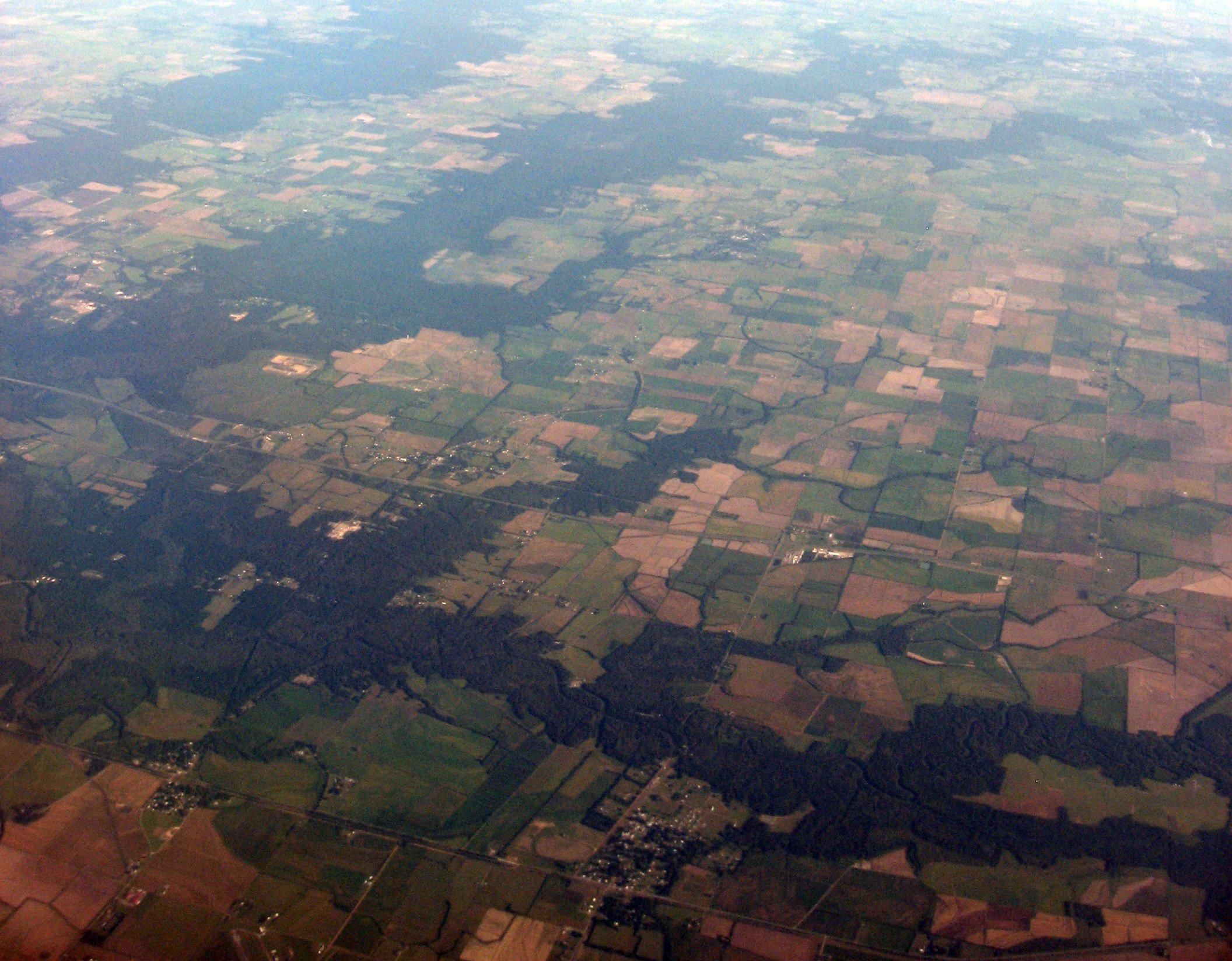 Egan is an unincorporated community and census-designated place in Acadia Parish, Louisiana, located between Crowley and Jennings along Louisiana Highway 100 about two and one half miles north of Midland near Bayou Jonas. The community is a part of the Crowley Micropolitan Statistical Area.